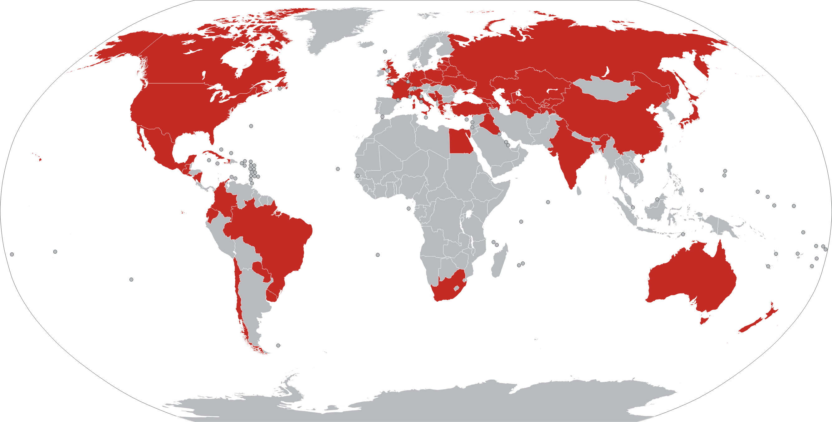 World map of M3/M5 Stuart operators